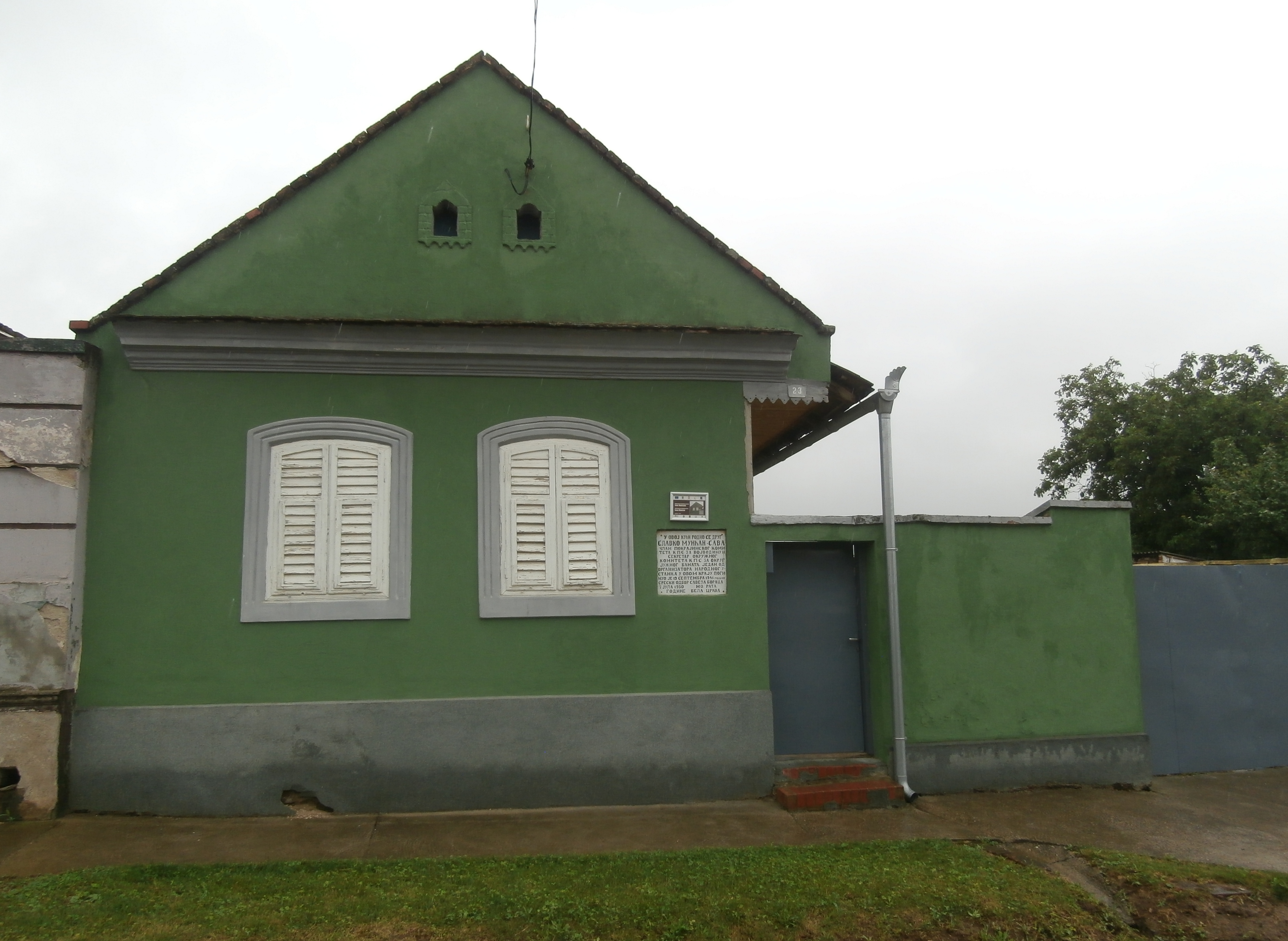 Birth house of national hero Sava Munćan in Kruščica, Bela Crkva